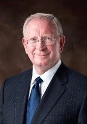 This is a photo of Darrell Castle, the 2008 Constitution Party (a United States third party) Vice Presidential candidate.